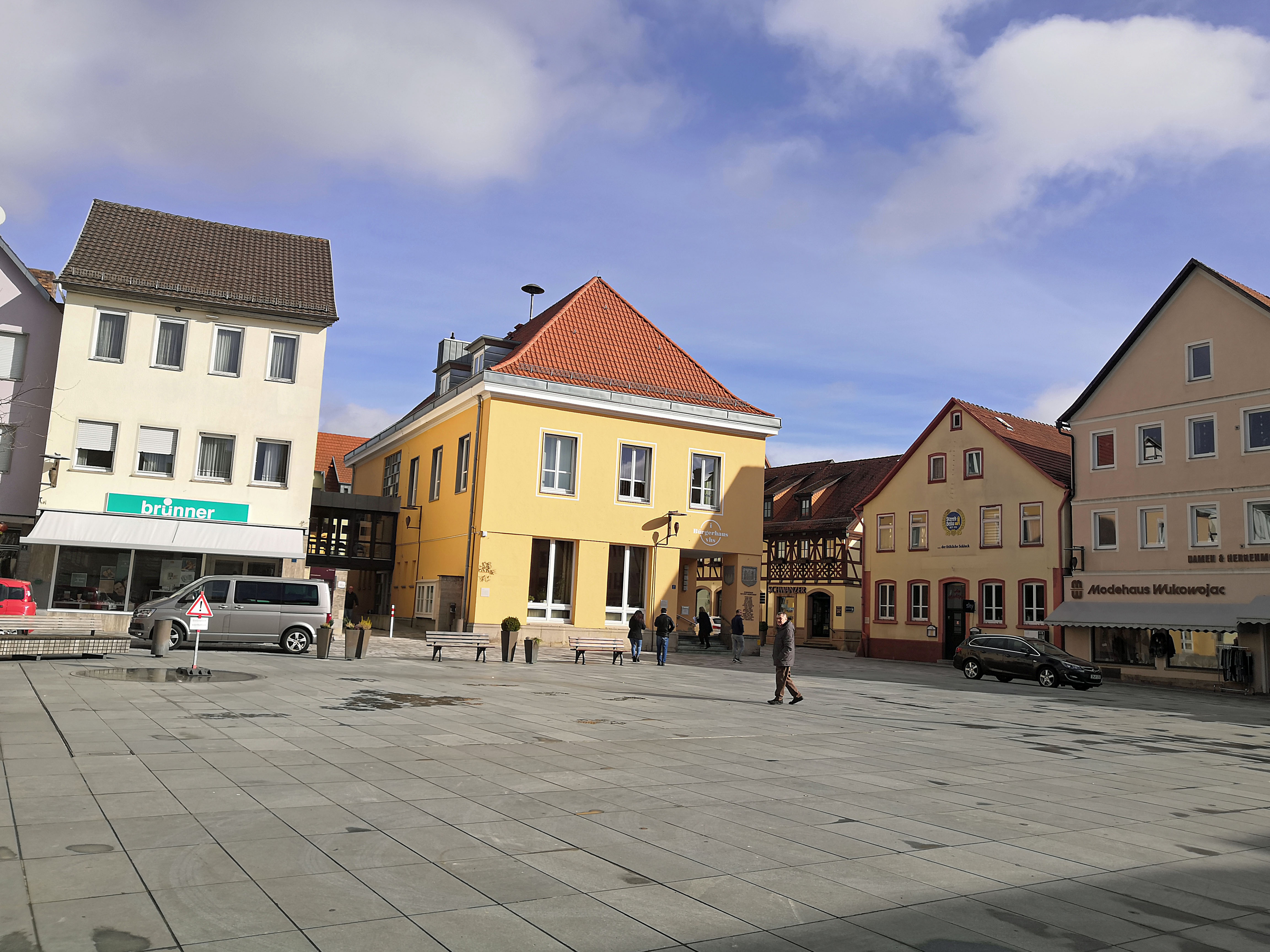 Mellrichstadt market square